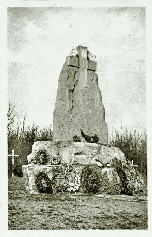 Memorial to Émile Driant (1855-1916) in Moirey-Flabas-Crépion (Meuse), France; French writer, killed at the Bois des Caures in Flabas in the first areana of fighting in the Battle of Verdun during World War I (1914-1918)